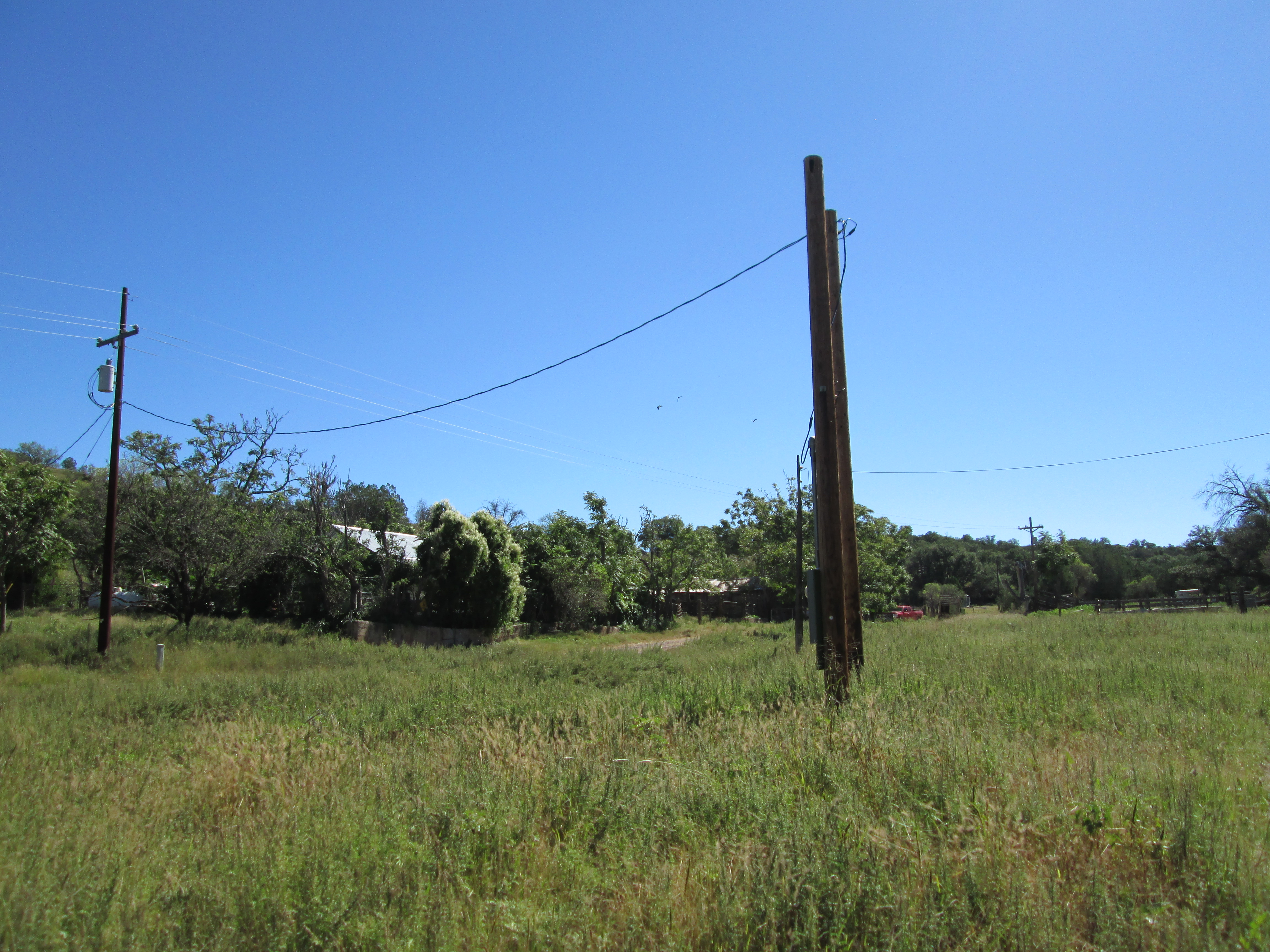 The Hale Ranch headquarters in the ghost town of Harshaw, Arizona. In the center and at left are the Norman and Mary Hale Residences and their outbuildings. To the right is a wooden corral.